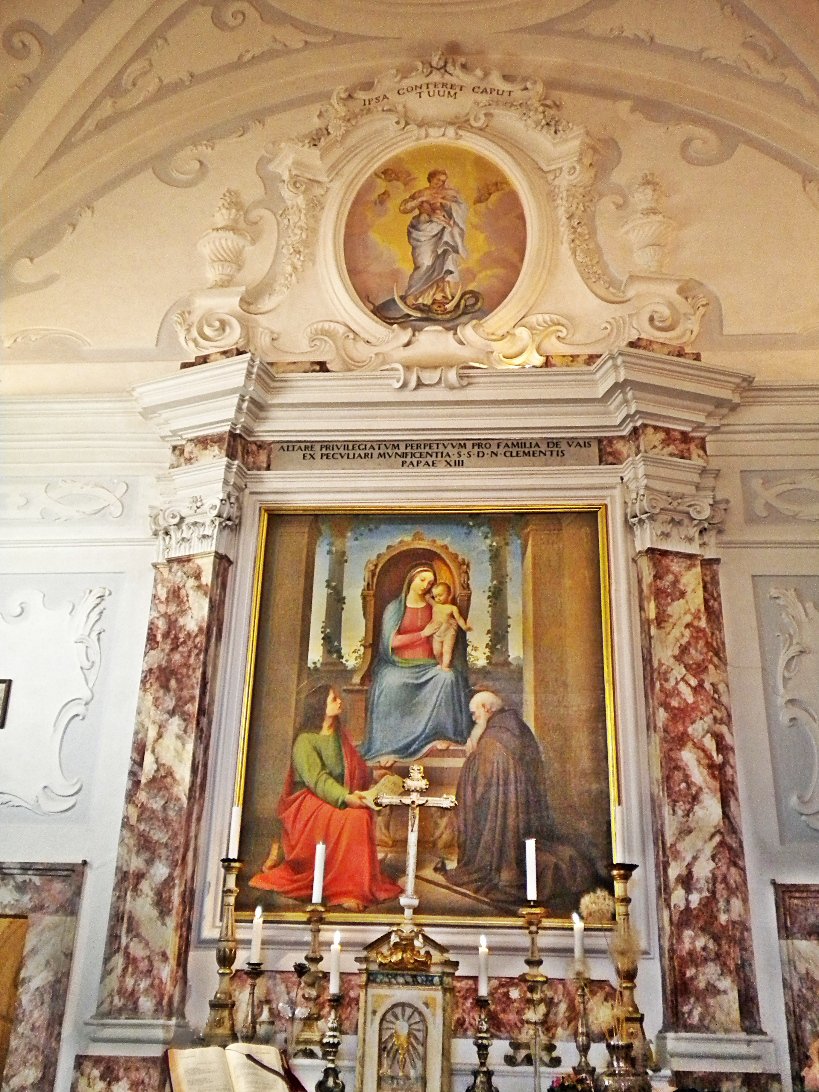 The Madonna with Jesus Child beetween St. John the Evangelist and St. Anthony from Padua_Antonio Marini